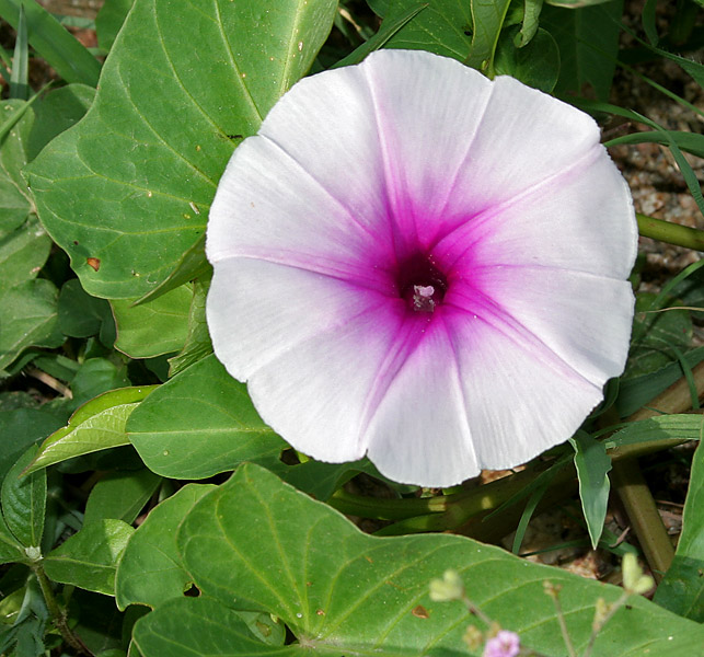 Ipomoea aquatica - Water Morning Glory, Swamp cabbage, aquatic morning glory, Chinese water spinach • Hindi: Nali, कलमी साग Kalmi sag • Manipuri: কোলম্নী Kolamni • Marathi: नालीची भाजी Nalichi-bhaji • Tamil: Sarkaraivalli • Telugu: Tutikura • Kannada: Chanthion • Bengali: কলমী সাগ Kulmi sag • Oriya: Kalama saga • Konkani: Takasi vel • Sanskrit: Karemu, Kalambi- in Hyderabad, India.